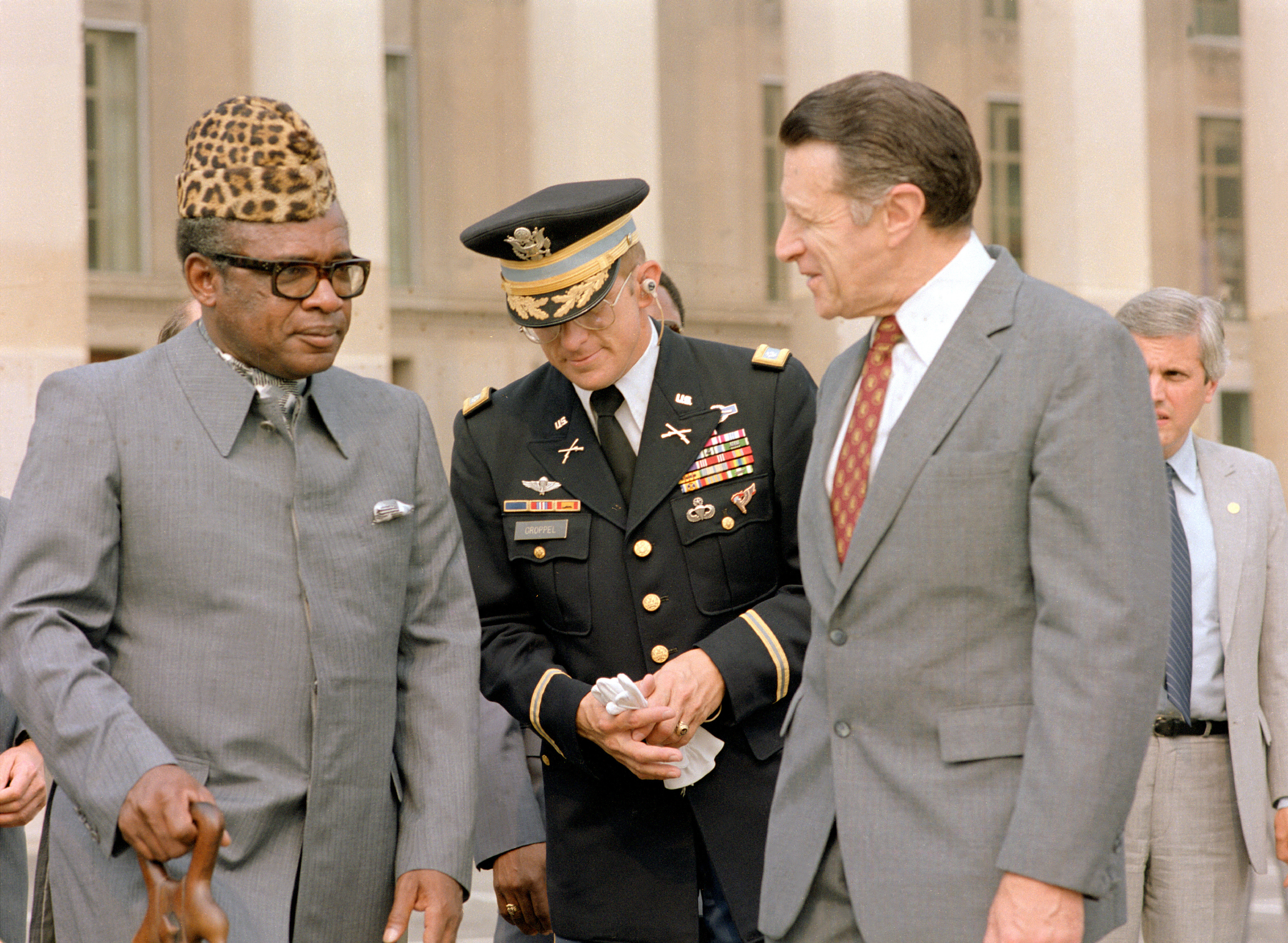 U.S. Secretary of Defense Caspar W. Weinberger meets with President Mobutu of Zaire at the Pentagon.